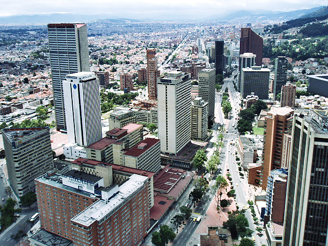 Bogotá center